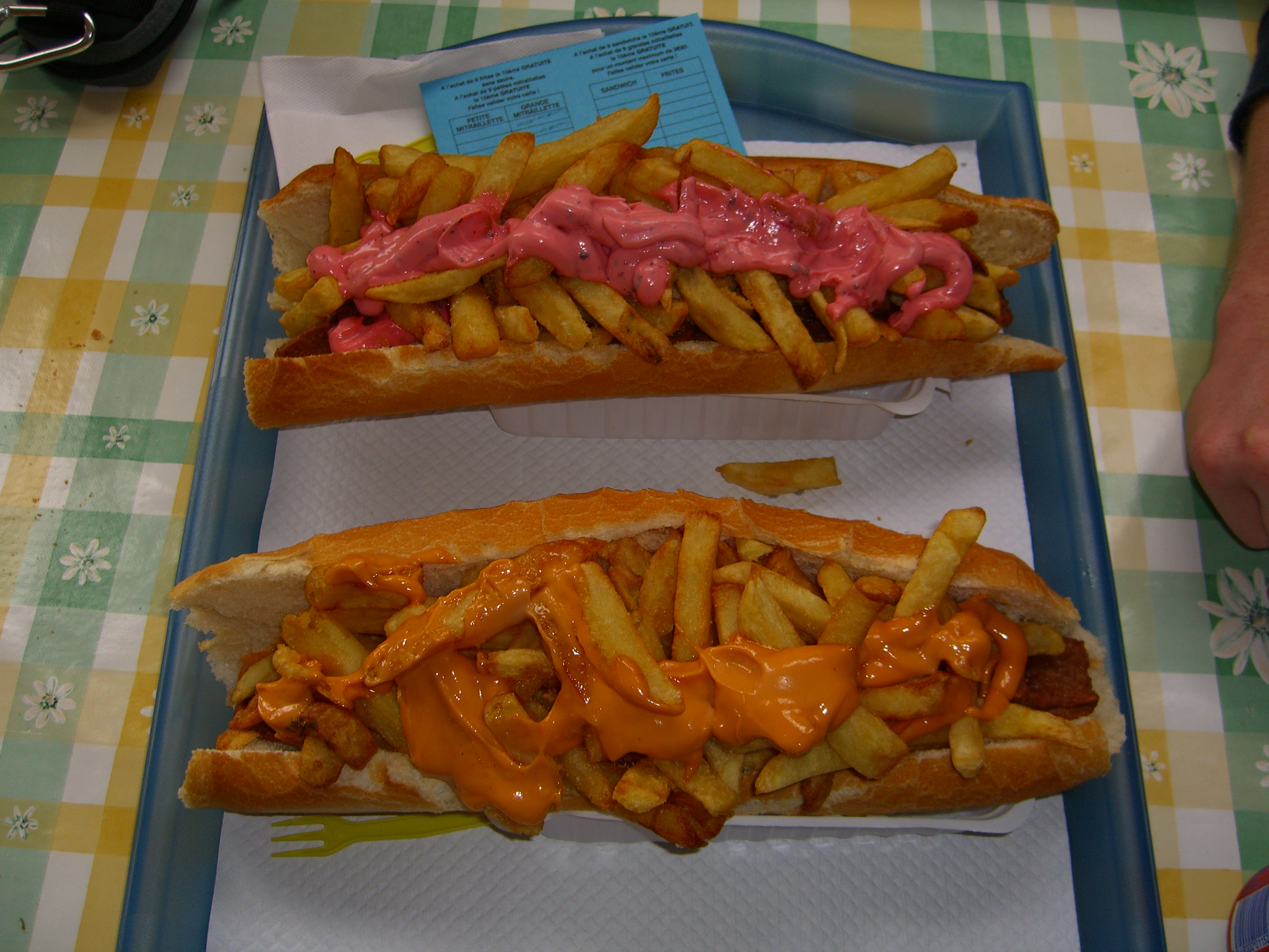 Two mitraillettes from "Friterie Du Perron." Liege, Belgium.